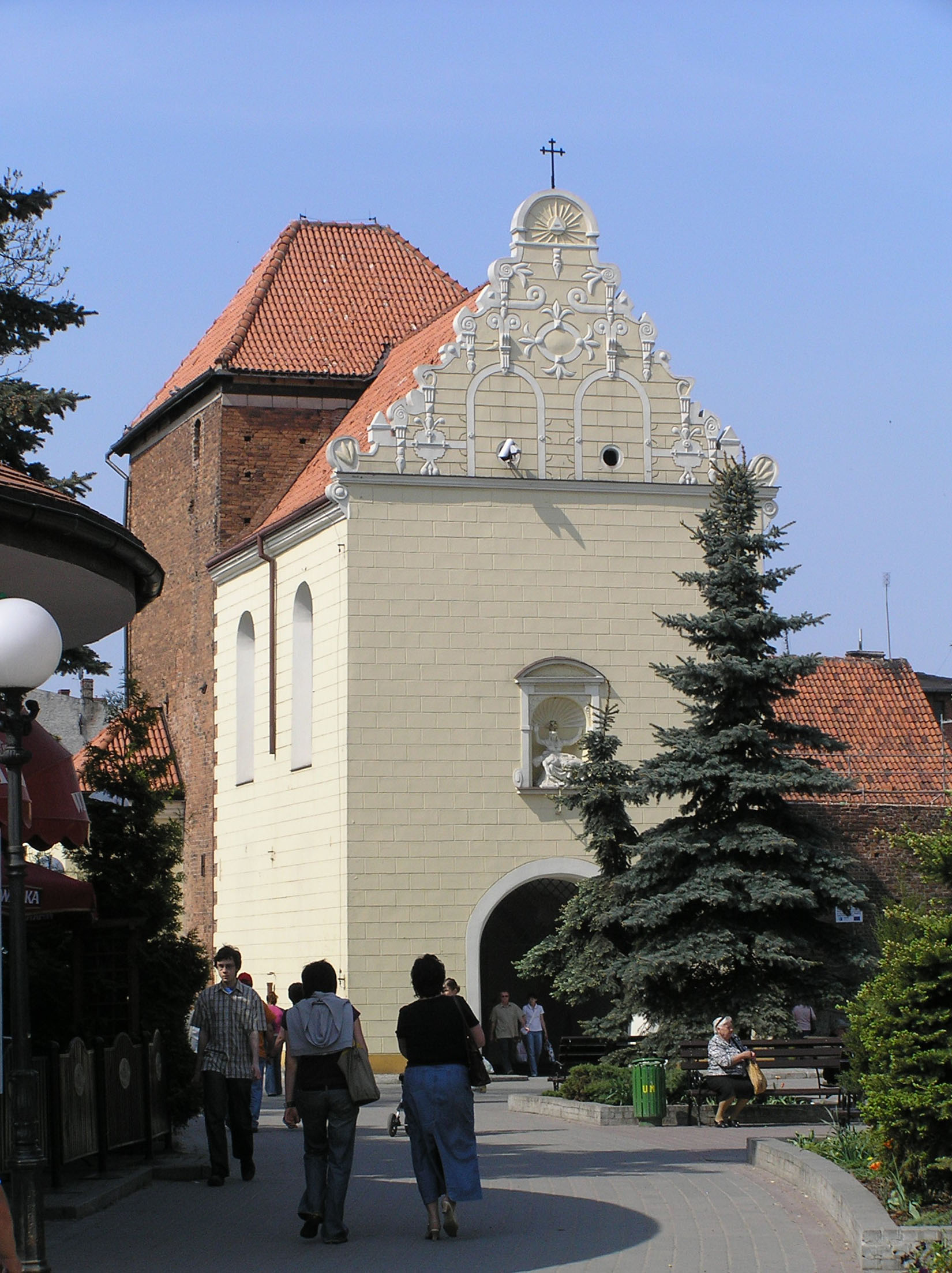 Chełmno, Grudziądzka Gate (Grubieńska Gate, Bramka), view from east